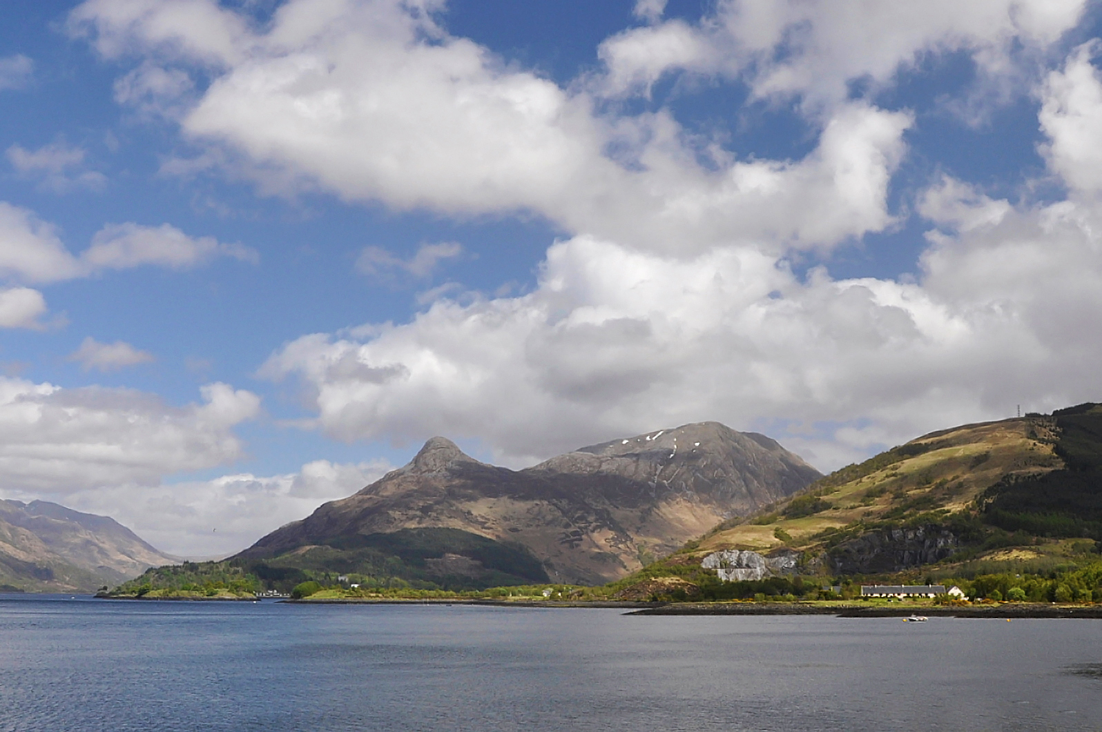 Loch Leven and Pap of Glencoe, Scotland